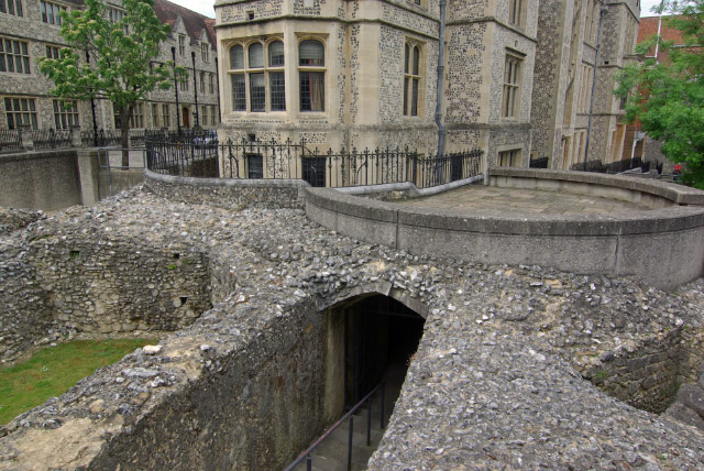 Castle remains, Winchester Not much remains of Winchester's castle except these excavations including the passage down into the castle cellar.